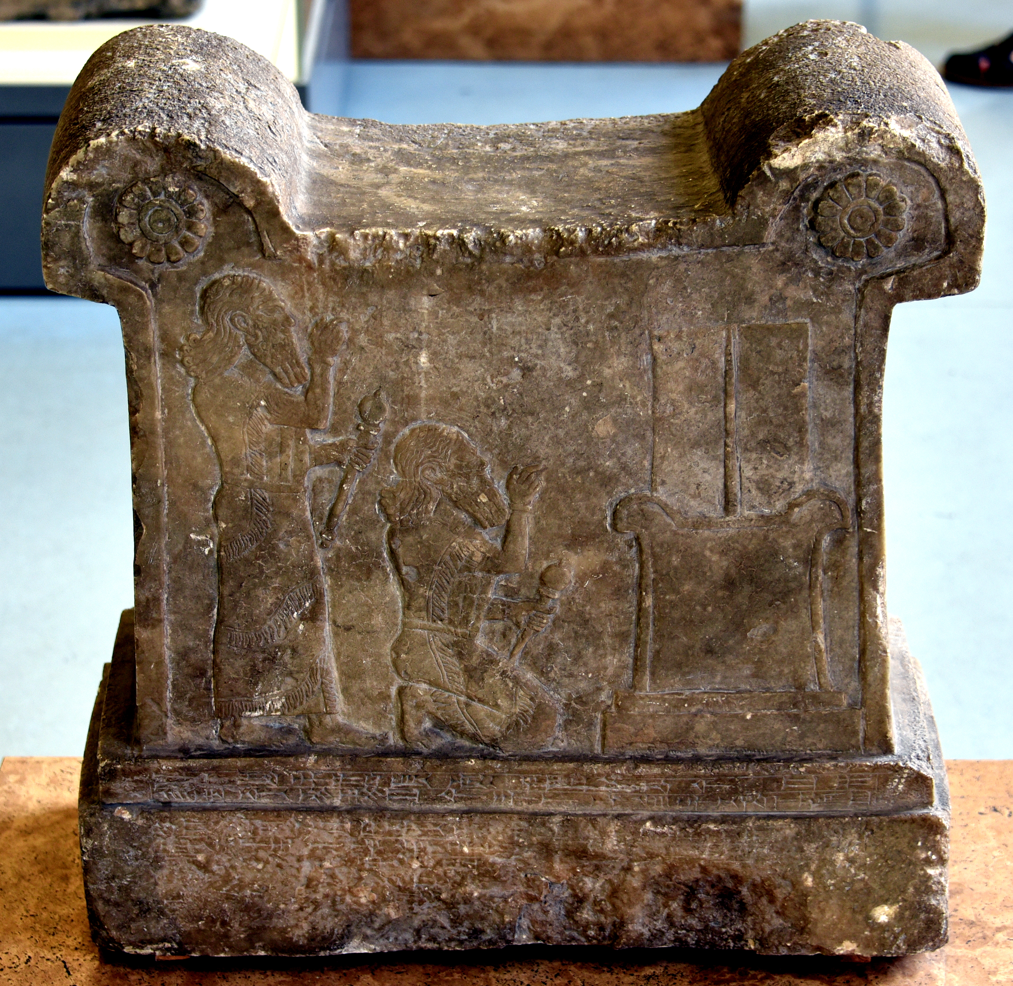 Symbolic base with a cuneiform inscription of Tukulti-Ninurta I, 13th century BCE. From the Temple of Ishtar at Assur, Iraq. Pergamon Museum, Berlin, Germany. Two men were depicted in relief, standing and kneeling holding a mace (representing the Assyrian king Tulkulti-Ninurta I, r. 1243-1207 BCE, in two movements), before a symbolic base with a symbol of the god Nabu of writing. The cuneiform inscription mentions the name of the king and the god Nusku (Nuska).